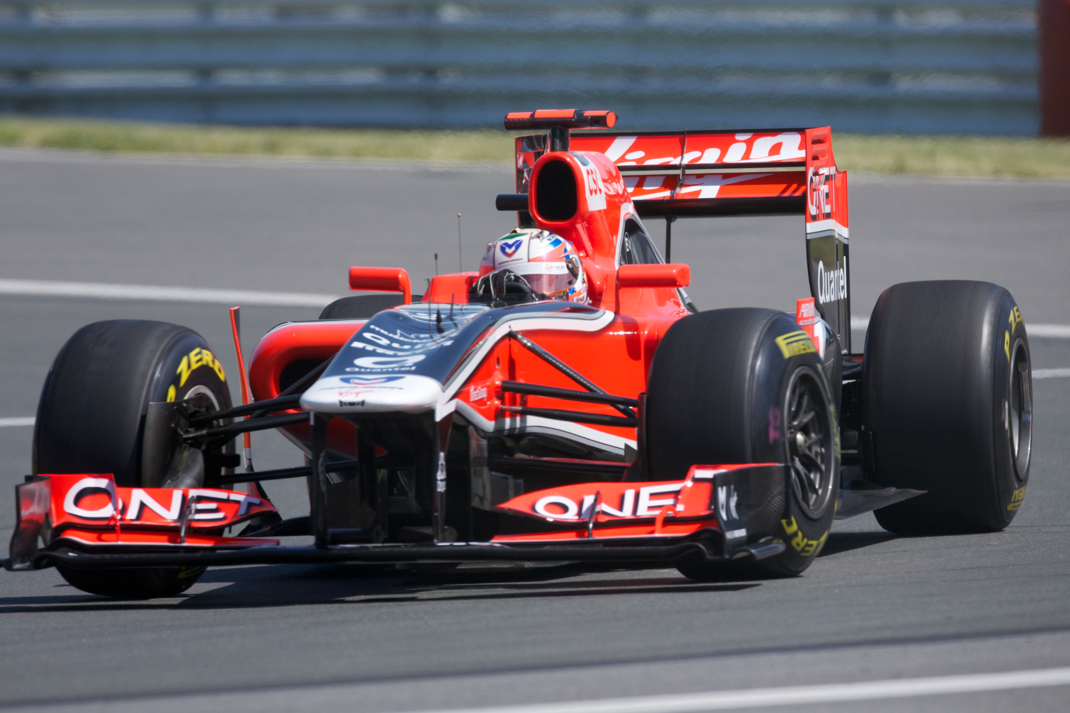 2011 Canadian Grand Prix